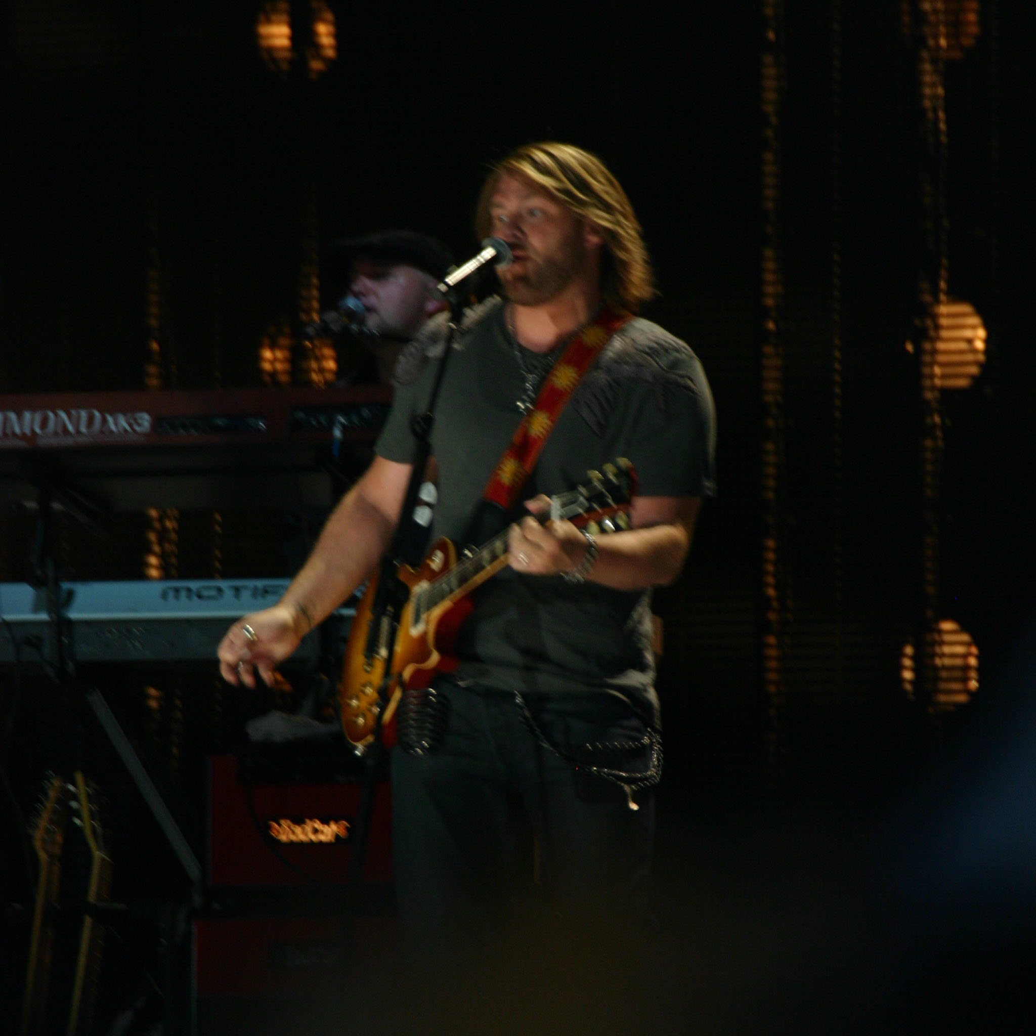 James Otto in performance